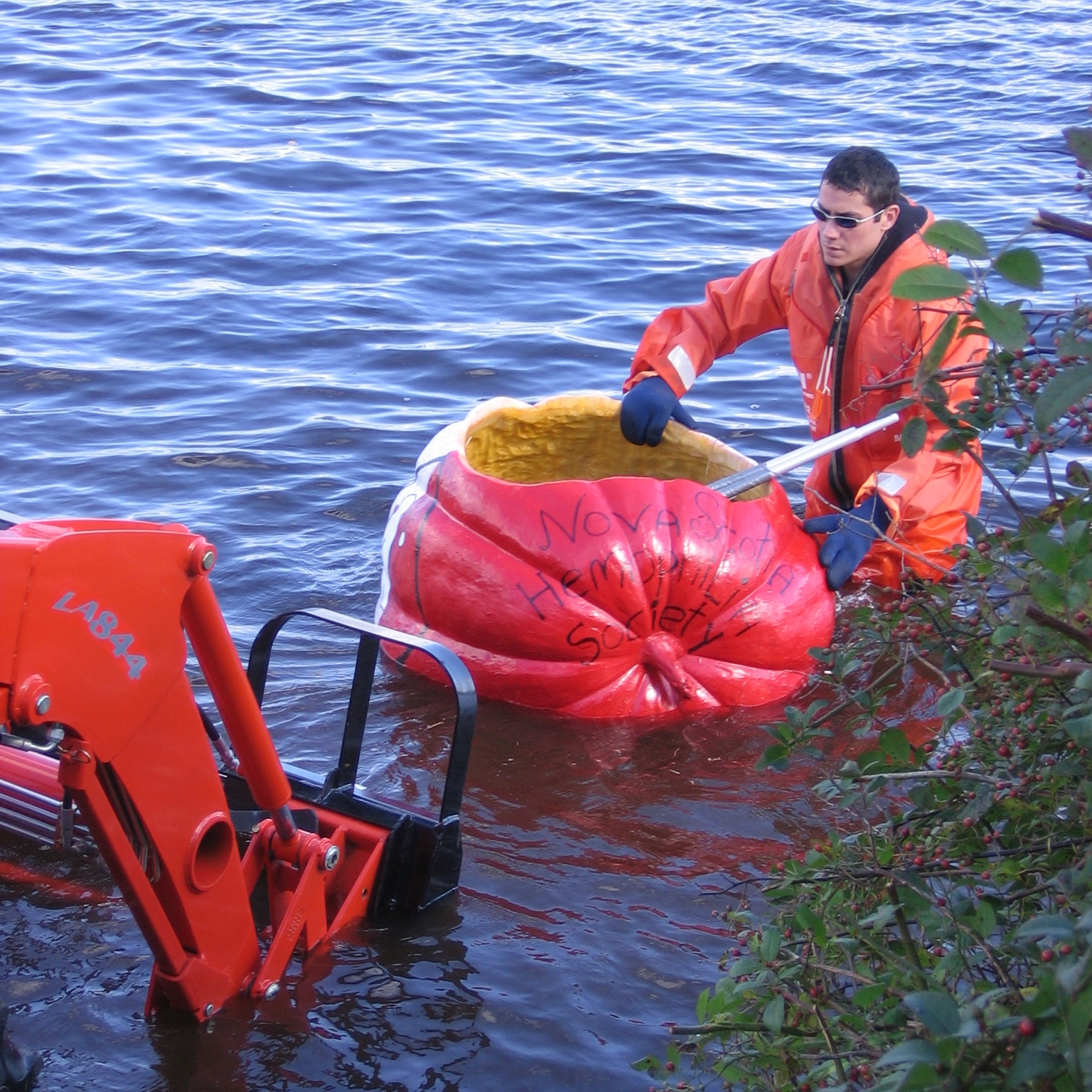 Unloading a pumpkin in Lake Pisaquid prior to the start of the 2008 Windsor Pumpkin Regatta, Windsor, Nova Scotia.